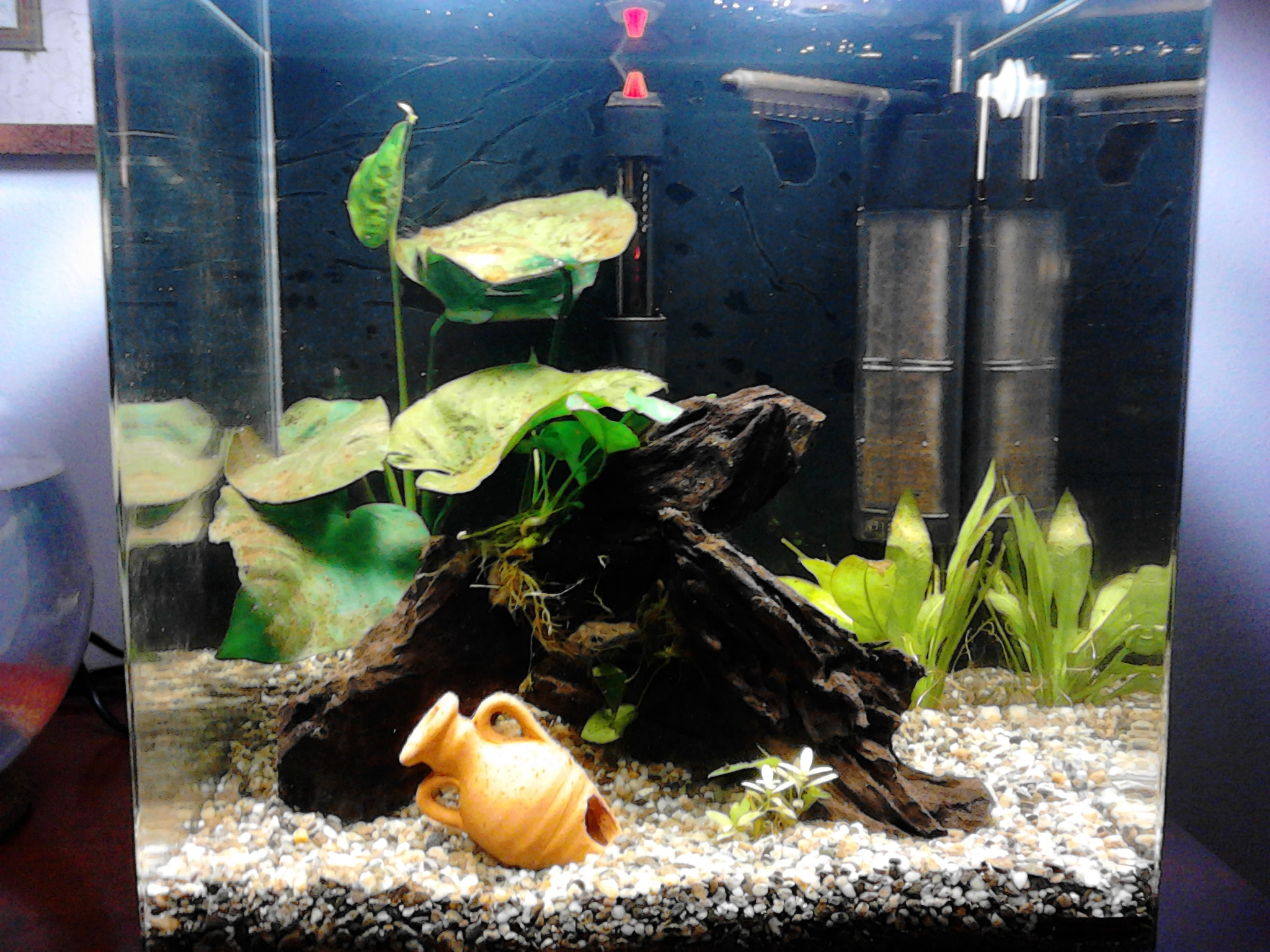 Dutch Acquarium - Dennerle Nano Cube 60 litres